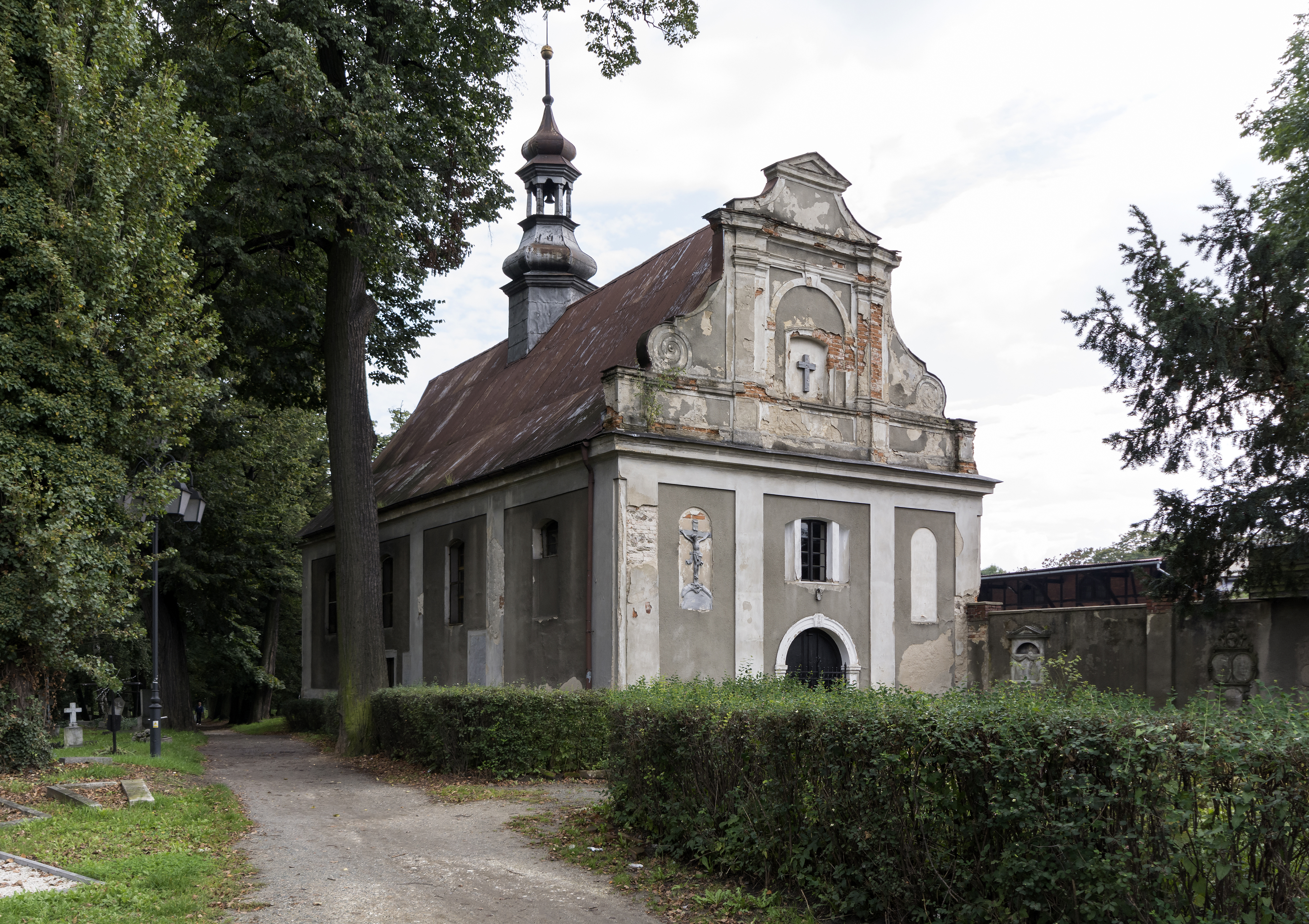 Church of the Nativity of the Virgin Mary in Ząbkowice Śląskie